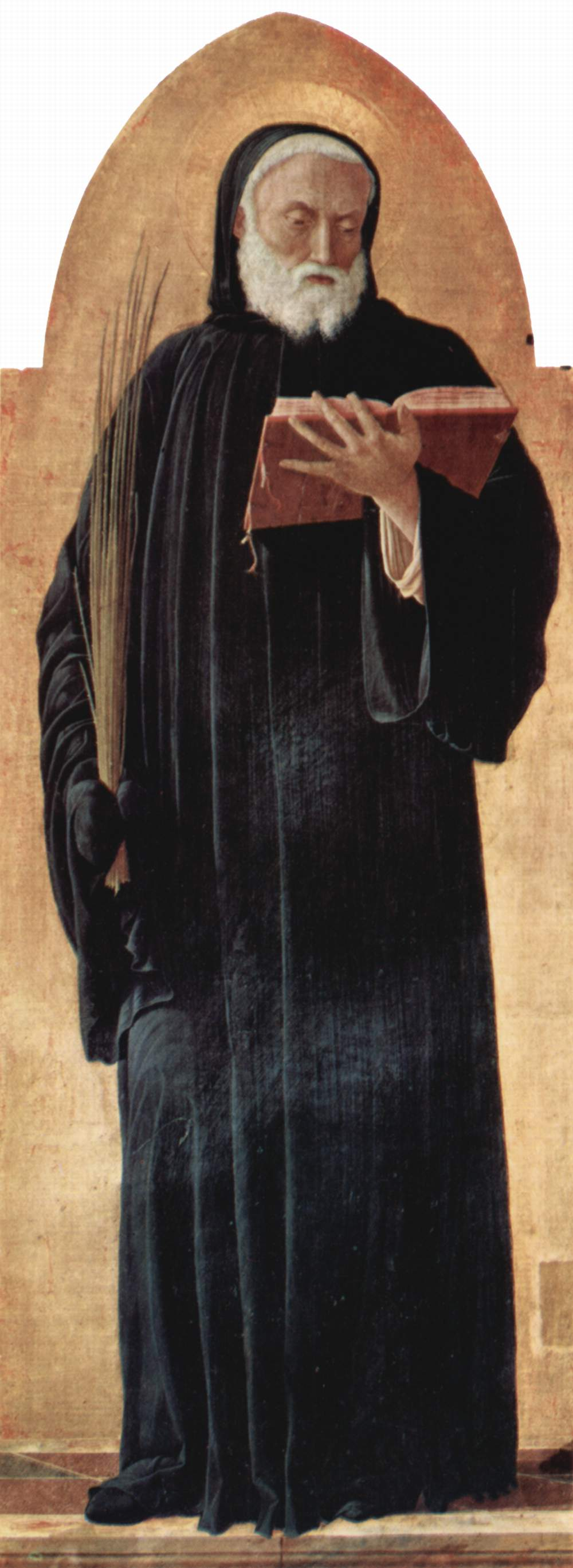 detail: Saint Benedict of Nursia